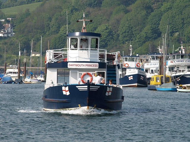 The Dartmouth Passenger Ferry . 1990 Built for K.J.Bridge and named Devon Belle II 1995 Sold to G.H.Riddall 2000 Sold to Dart Pleasure Craft and renamed: Dartmouth Princess Sister ships in the River Link fleet can be seen moored to the right. For more information see the Wikipedia article Dartmouth Passenger Ferry.